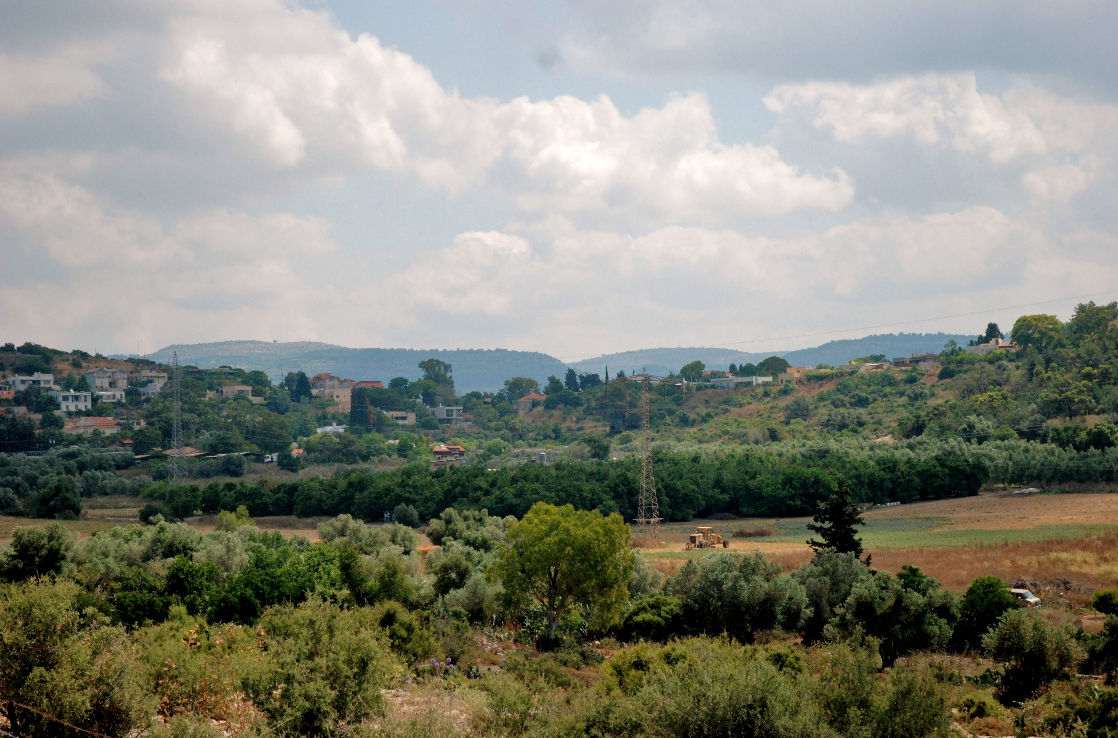 Maharal Valley-Israel, Geography of Israel